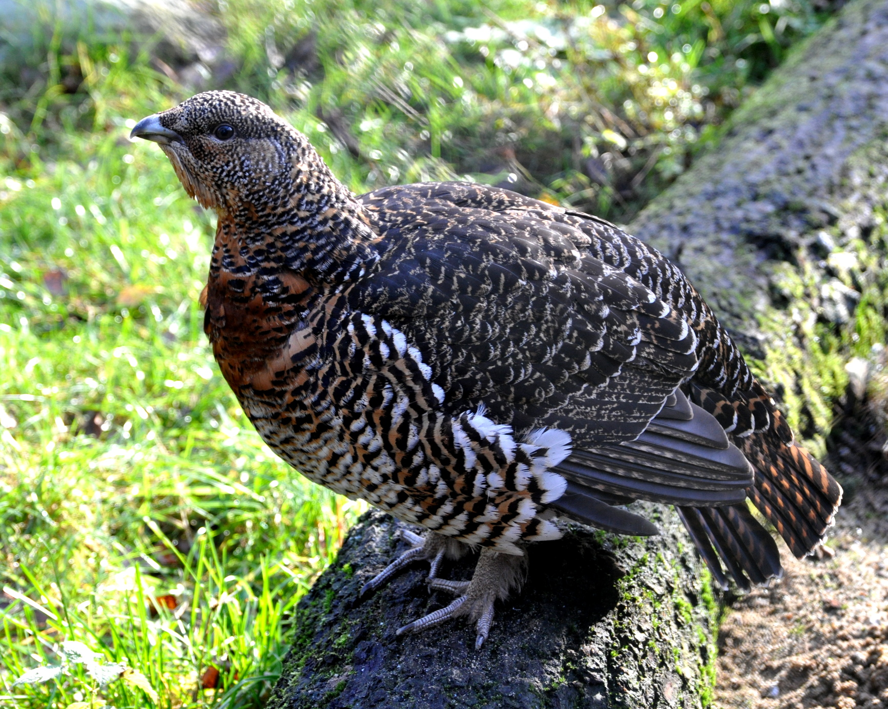 Femals Western Capercaillie (Tetrao urogallus) in the Lüneburg Heath wildlife park, Germany.